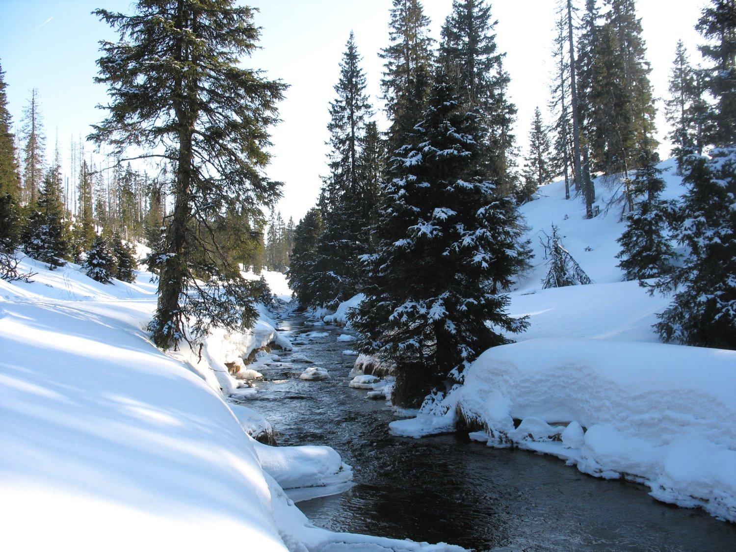 The brook Modravský potok in the Šumava Mts., Czech republic